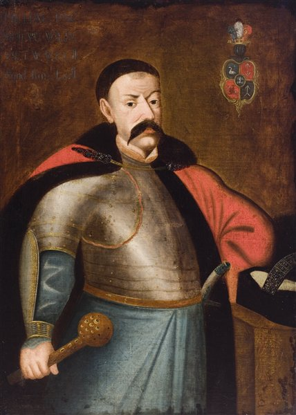 Michał Kazimierz Pac, Grand Hetman of Lithuania